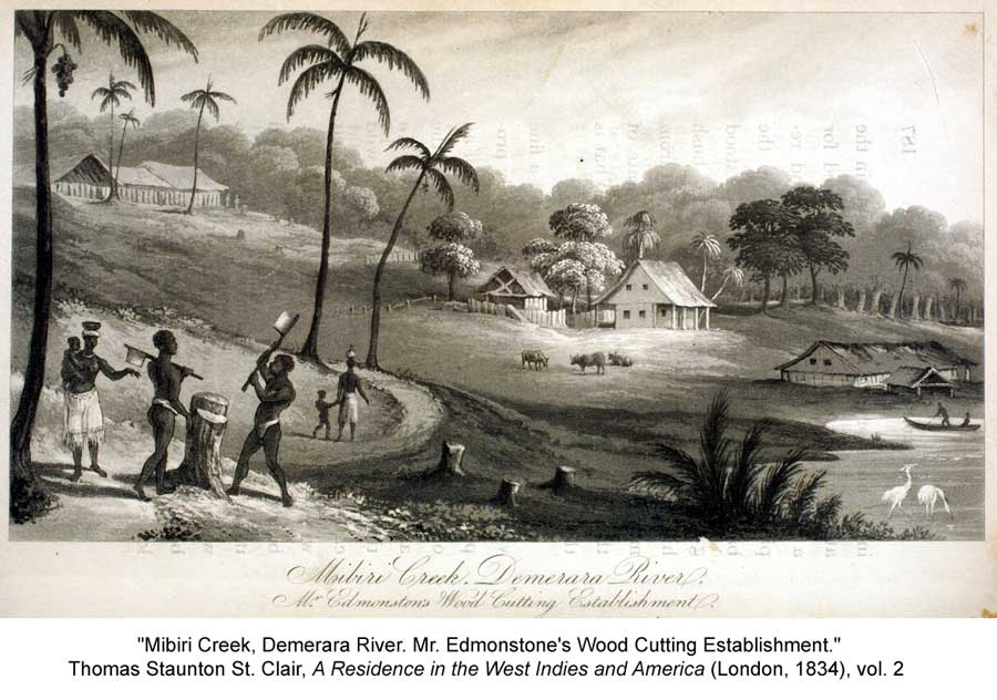 Thomas Staunton St. Clair sketched this scene while visiting Edmonstone's settlement. In left foreground, two male slaves are cutting wood, next to them are "their wives and children." In the very lower right hand corner is the boat-house, above it the main dwelling house, "and on the top of the hill were the Negro huts, with some cocoa-nut trees